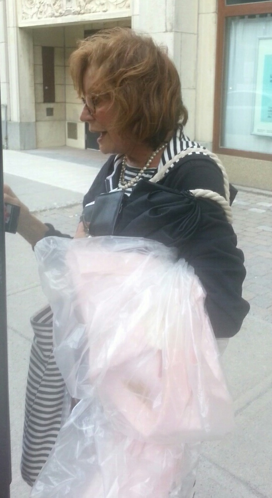 Louise Marleau photographed in Montréal, Québec, Canada outside the Outremont Theatre. No EXIF because of the me taking a picture of her in the video format.